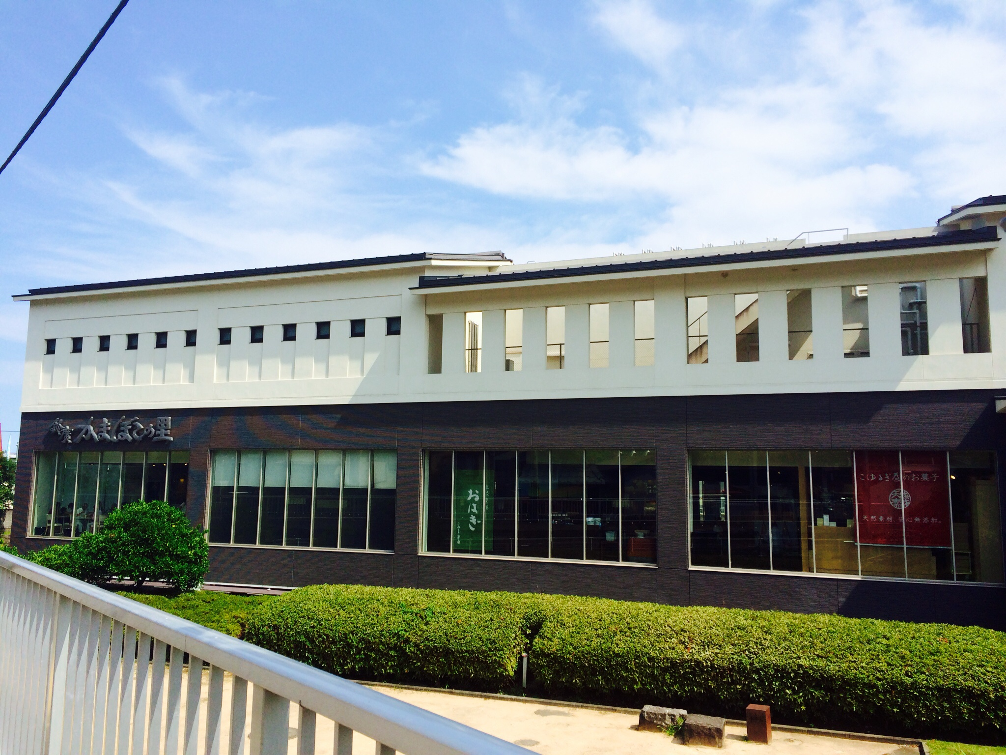 Suzuhiro Fishcake Building